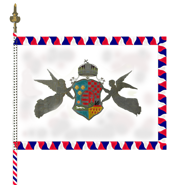 flag of Croatian Royal Home Guard Regiments